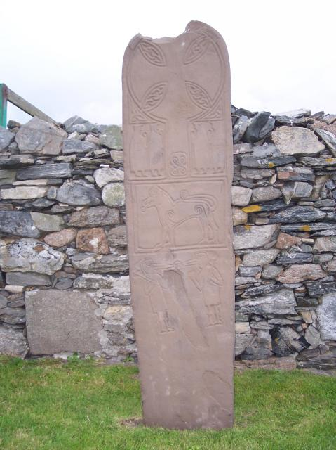 Copy of the Papil Stone, Papil, West Burra, Shetland This replica was placed here in the year 2000. The original is in the Edinburgh Museum of Antiquities.